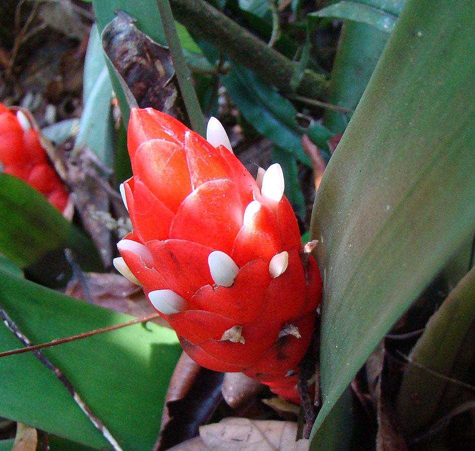 Native from Nicaragua to Panama, here in the Kuna Yali border area of northern Panama. In context at